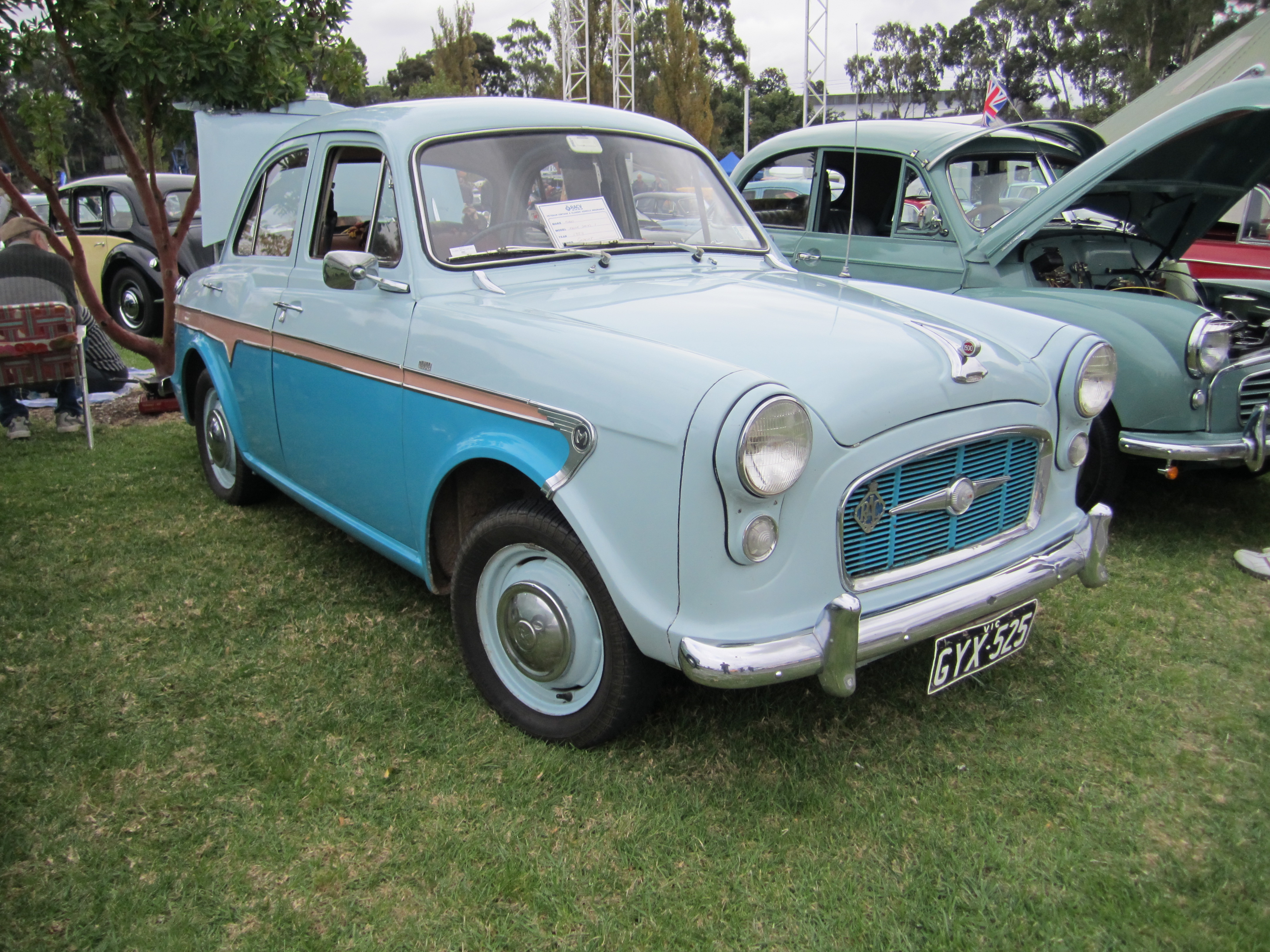 Built by BMC Australia from 1958-59. Closely related to the Aussie Austin Lancer & English Wolseley 1500 & Riley 1.5. Engine; 1487cc 4 cyl